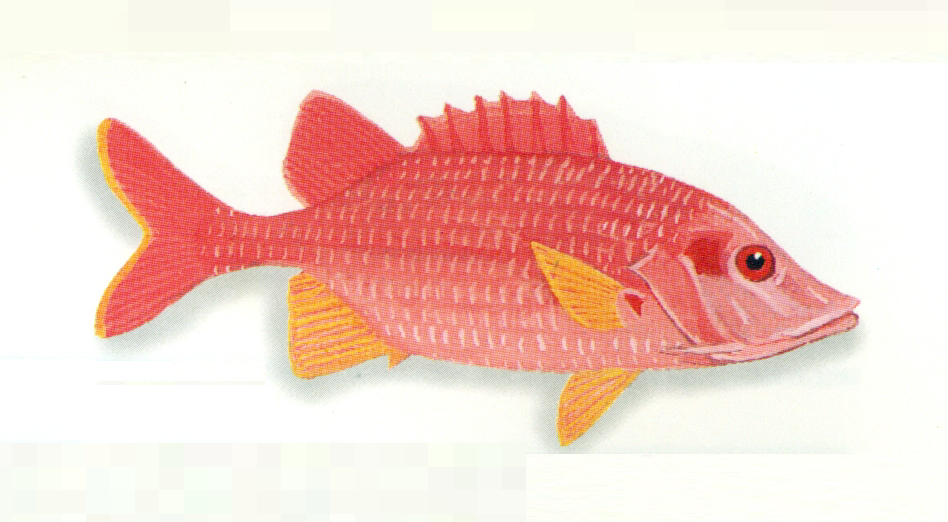 Sargocentron_spiniferum